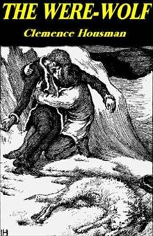 The Were-Wolf by Clemence Housman, illustration by Laurence Housman.